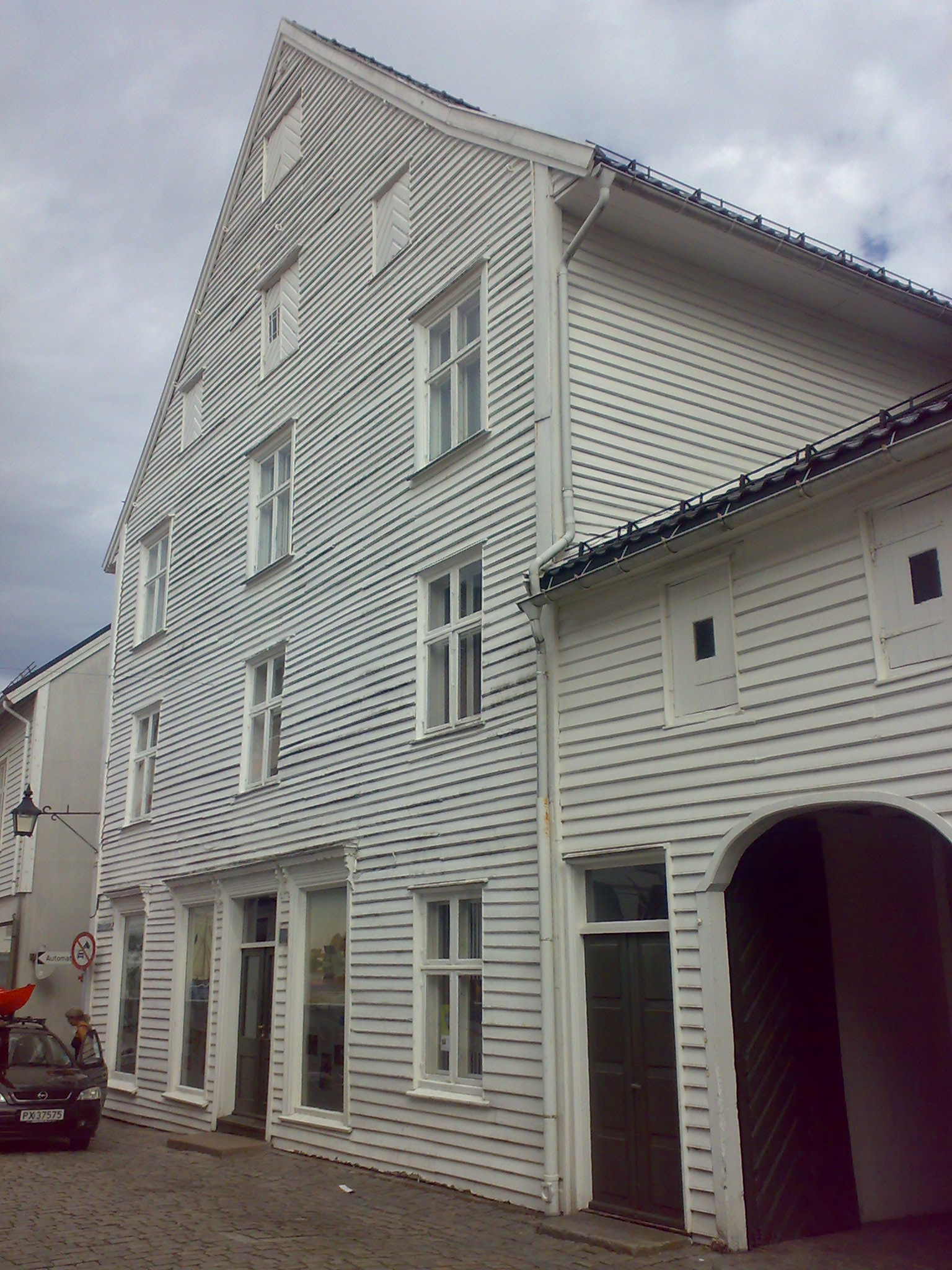 Andorsengaarden (Andorsen manor), Mandal, Norway. Site of the Amaldus Nielsen Museum and Mandal City Museum